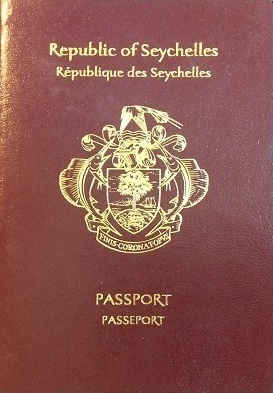 Passport of Seychelles